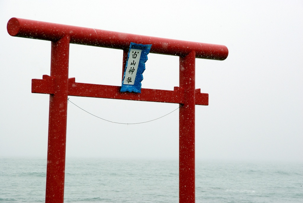 No.1 torii gate of Hakusan-jinja, on Yura coast, Tsuruoka. See the map. Pentax K-m